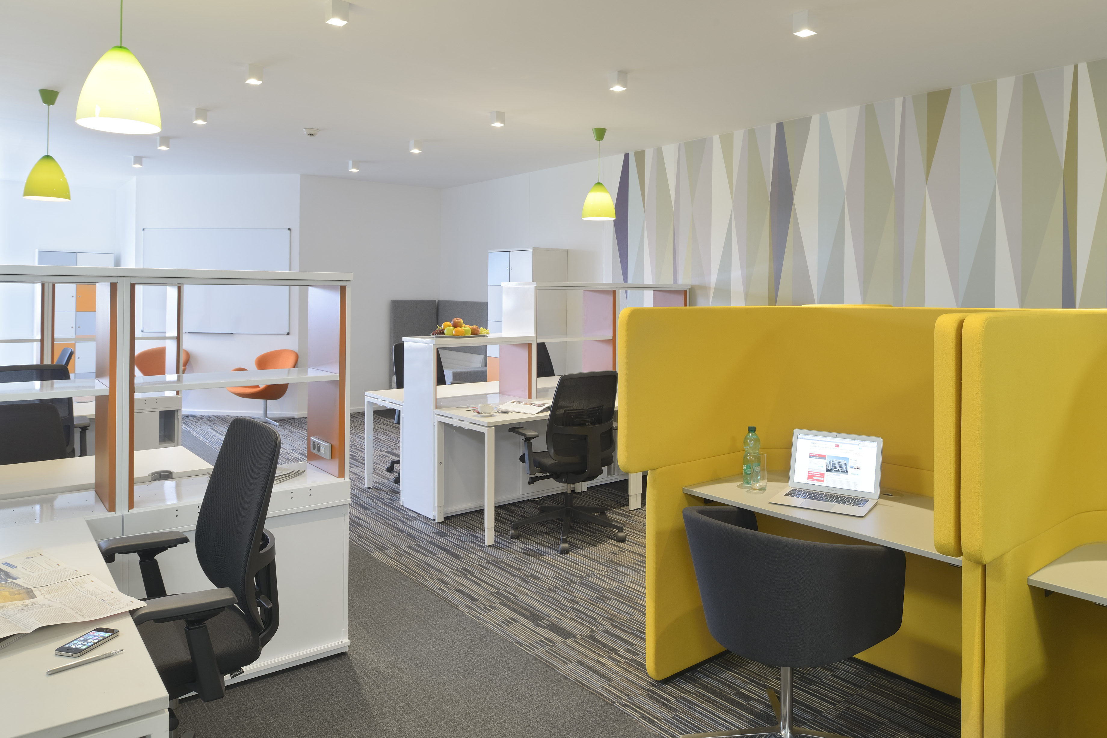 First Regus location at Avenue Louise 165, Brussels